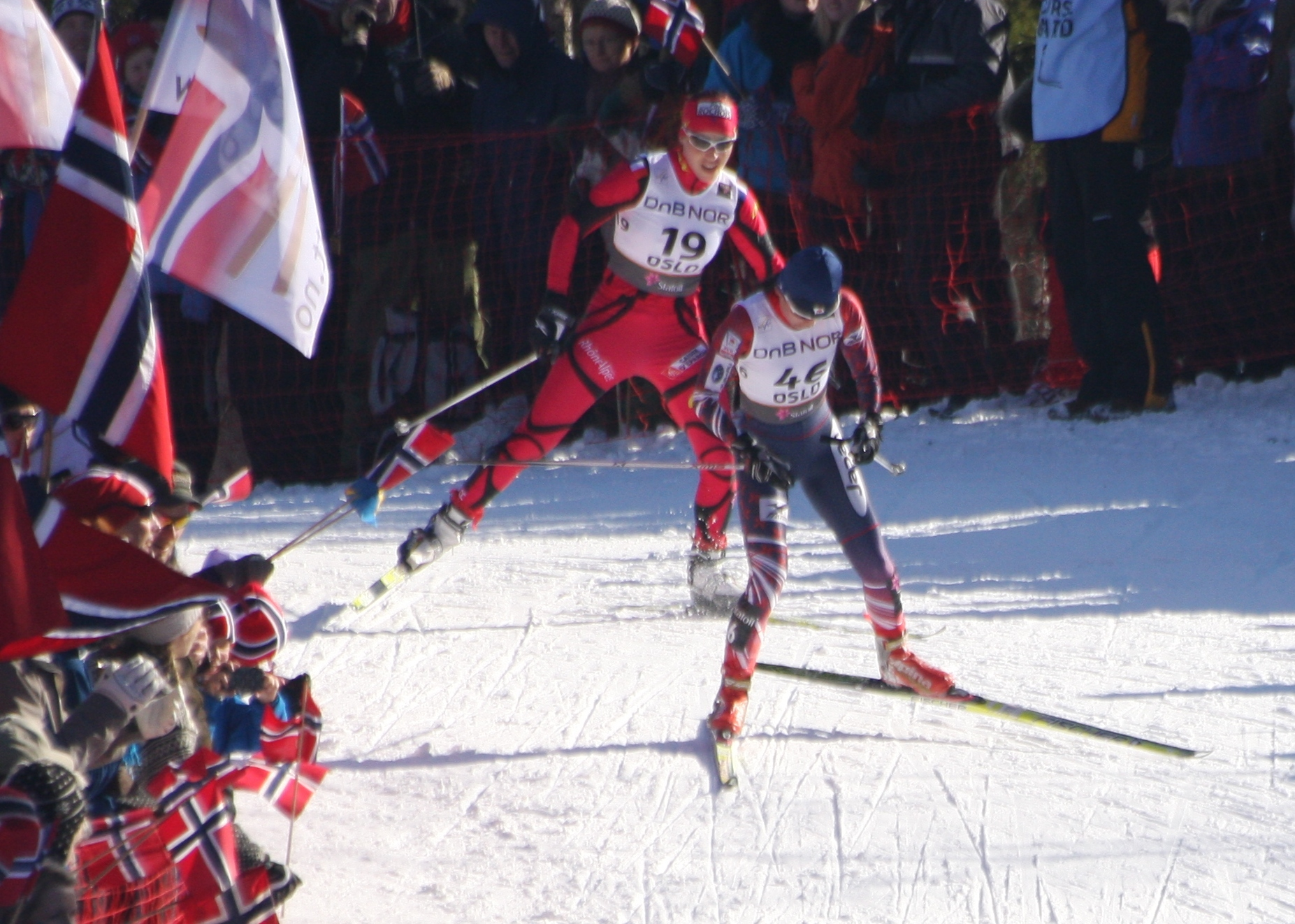 Laure Barthelemy (No 19), France, at 17 km in the women's 30 km, FIS Nordic World Championship, Oslo 2011.